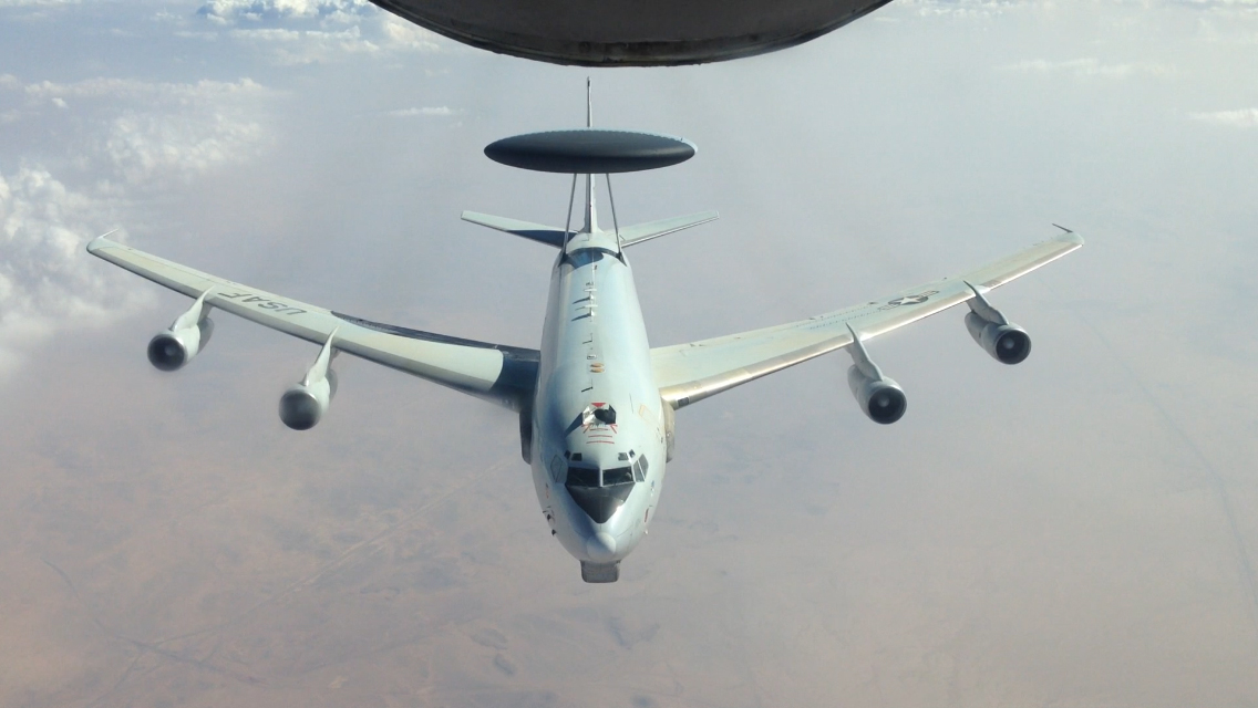 An E-3 Sentry Airborne Warning and Control System flies over an undisclosed location in Southwest Asia just after refueling Nov. 16, 2013. The AWACS provide service members situational awareness of friendly, neutral and hostile activity, command and control of an area of responsibility, battle management of theater forces, all-altitude and all-weather surveillance of the battle space, and early warning of enemy actions during joint, allied, and coalition operations. (U.S. Air Force photo/Senior Airman Dan Frost)